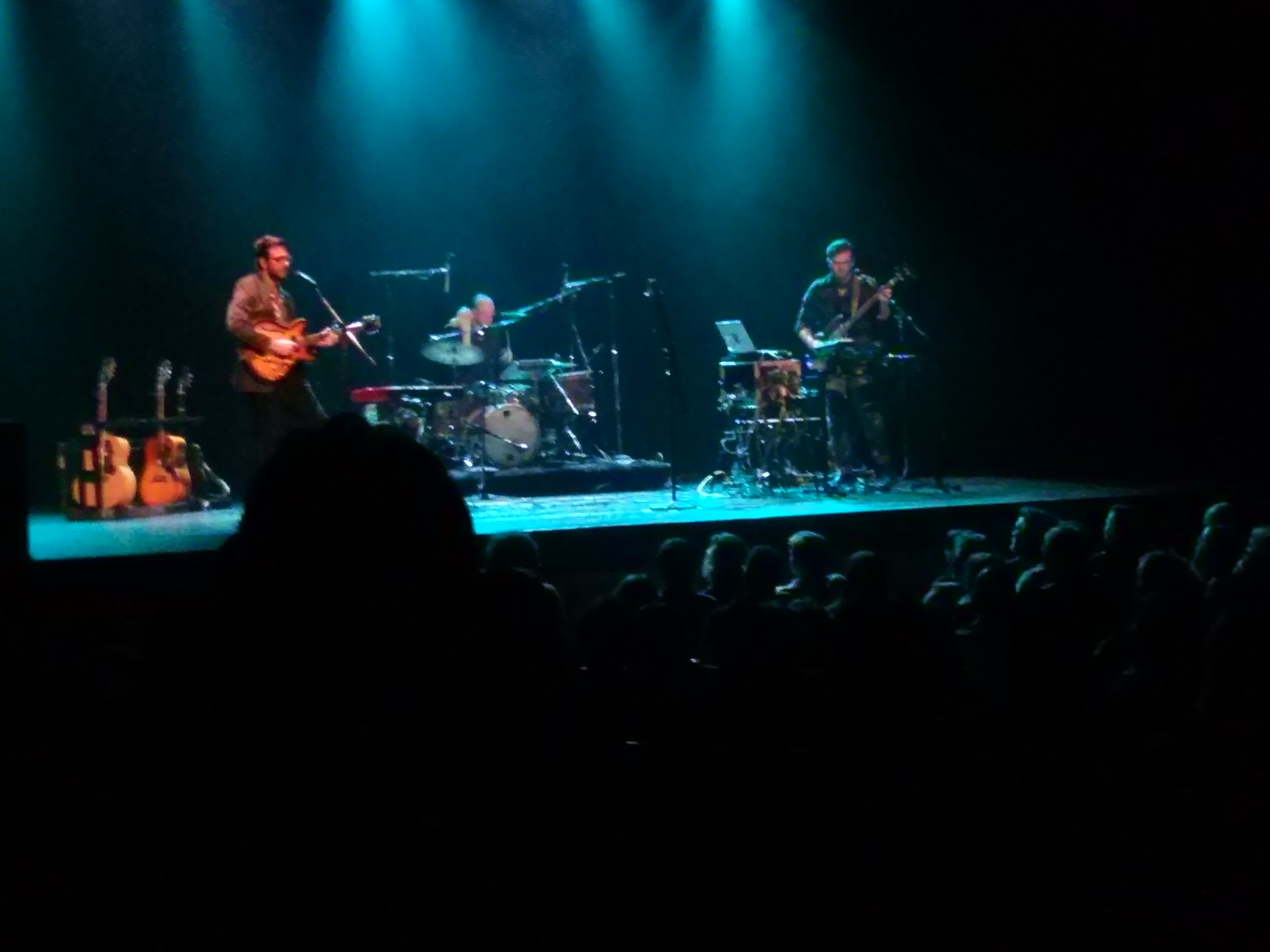 Field Report at Pabst Theater, Milwaukee, WI - October 22, 2014